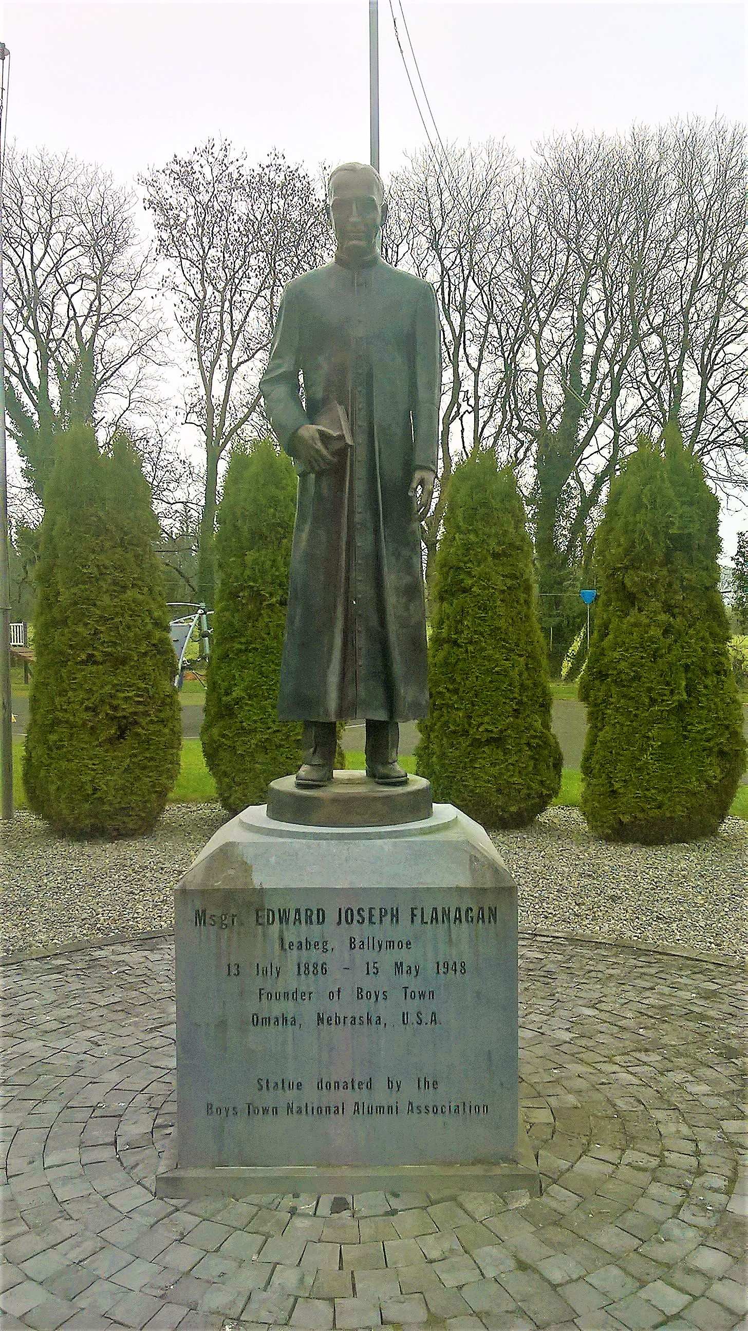 Statue in honour of Fr. Edward J. Flanagan (1886-1948), Ballymoe, Co. Galway.